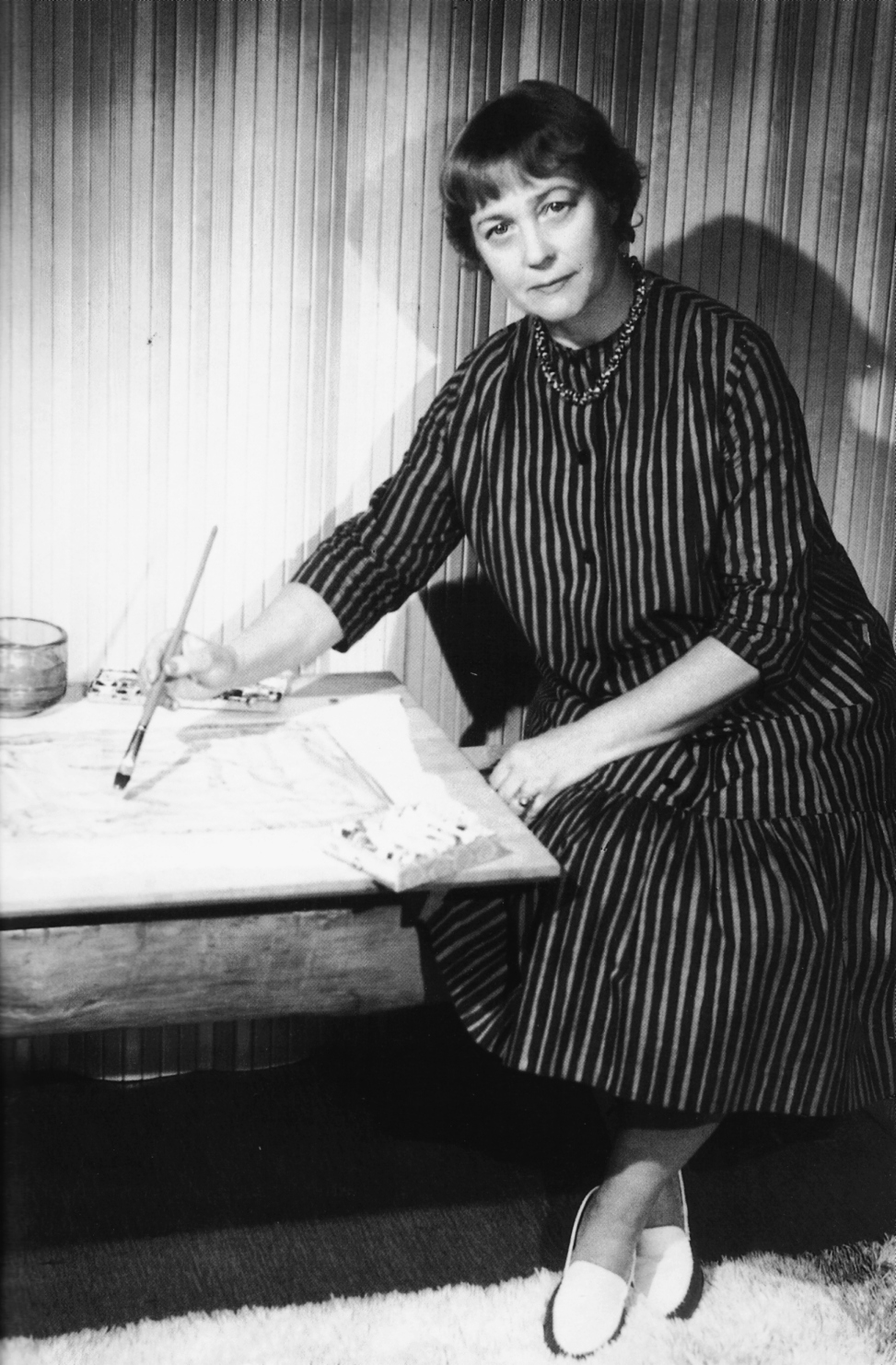 Photograph of the Finnish textile artist Eva Brummer (1901–2007).